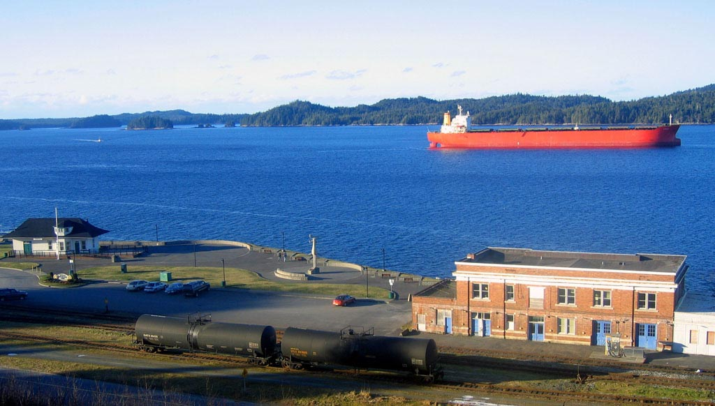 Freighter in Prince Rupert Harbour, with train stations in foreground.